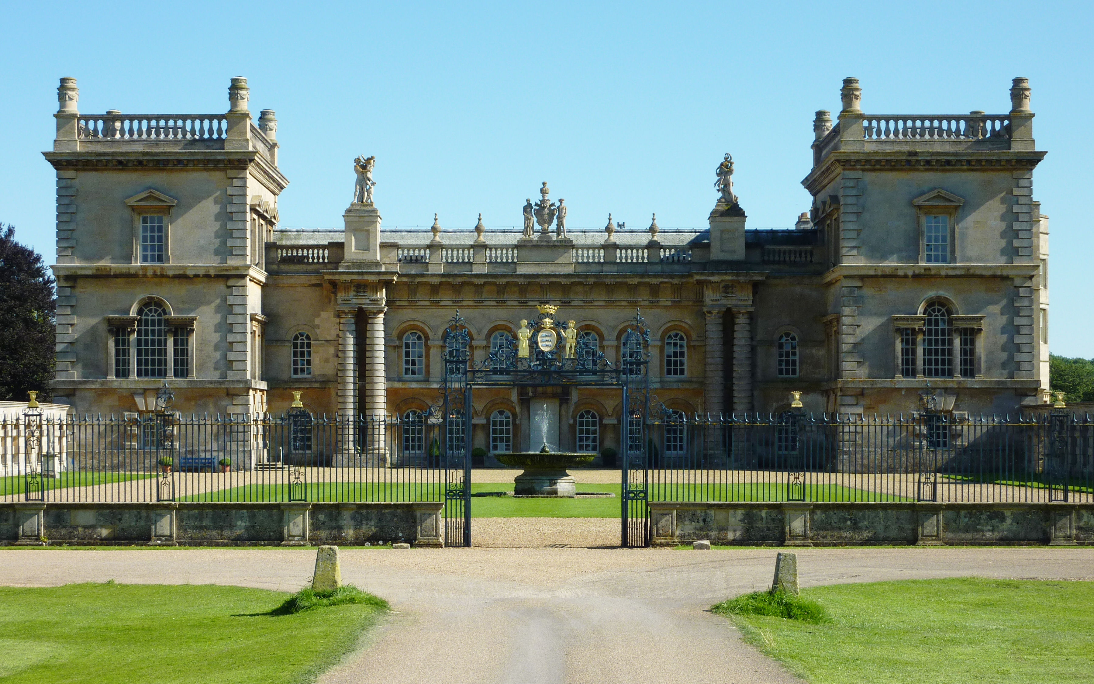 Northern (Main) Facade of Grimsthorpe Castle in Lincolnshire